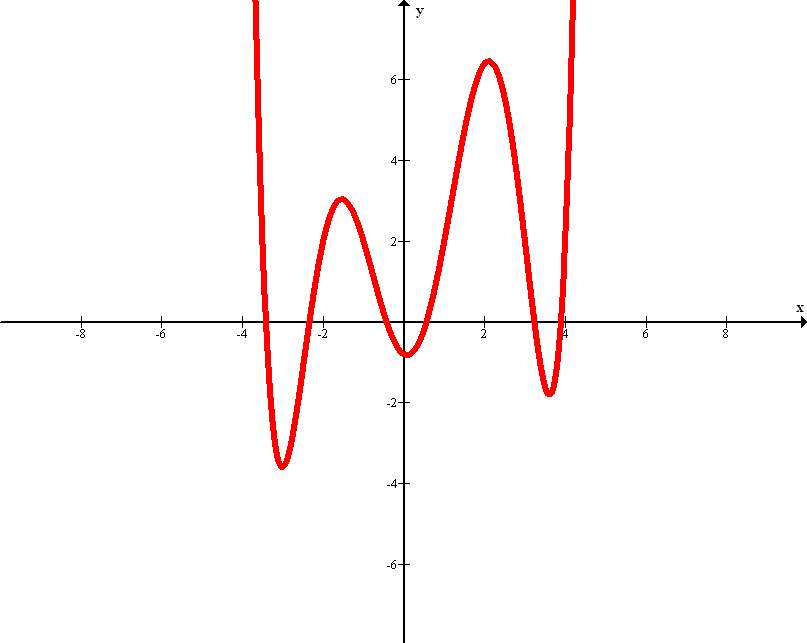 Polynomial of degree 6: f ( x ) = x 6 − 2 x 5 − 26 x 4 + 28 x 3 + 145 x 2 − 26 x − 80 20 {\displaystyle f(x)={x^{6}-2x^{5}-26x^{4}+28x^{3}+145x^{2}-26x-80 \over 20